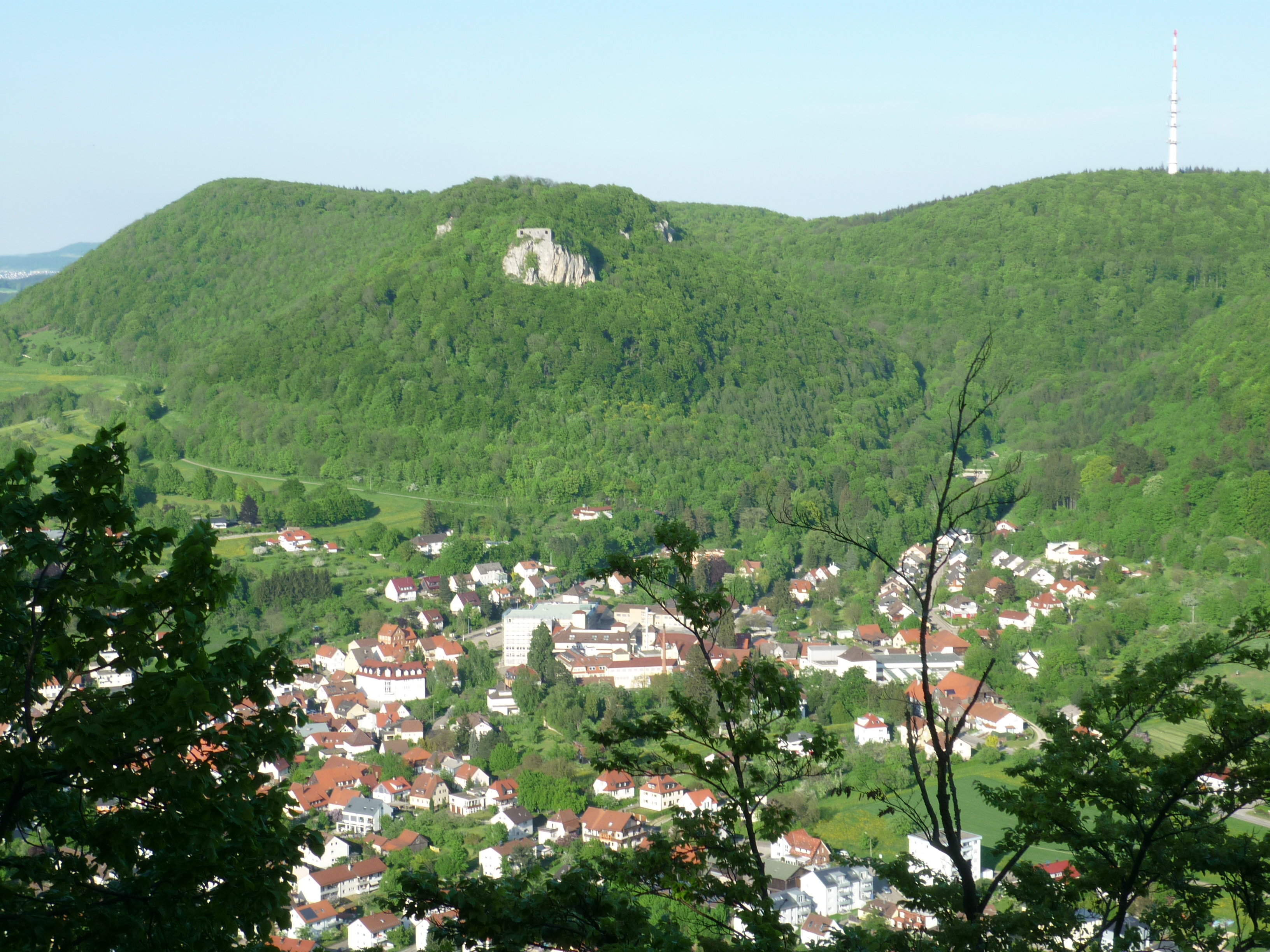 Impression of Heubach and the western part of the mountain Rosenstein with the ruin Rosenstein situated on the western rock as seen from the Scheuelberg.